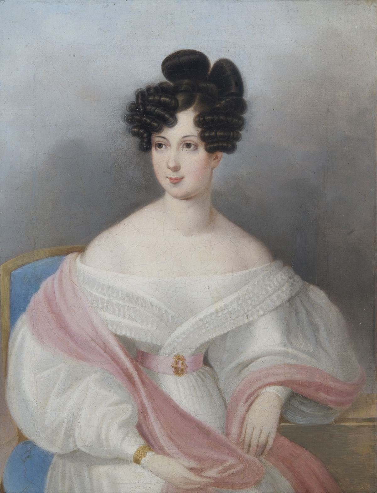 Claudine Rhédey von Kis-Rhéde (1812-1841), Wife of Duke Alexander of Württemberg, Countess of Hohenstein